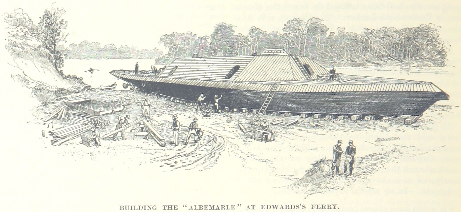 The Confederate ironclad CSS Albemarle under construction at Edward's Ferry.